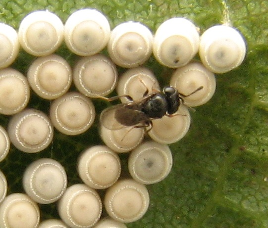 Stinkbug egg parasitoid, Trissolcus sp. (probably Trissolcus euschisti) female, on eggs of stinkbug, Chinavia hilaris. Size of parasitoid: 1-1.5 mm. Churchville Nature Center, Bucks County, Pennsylvania, USA.